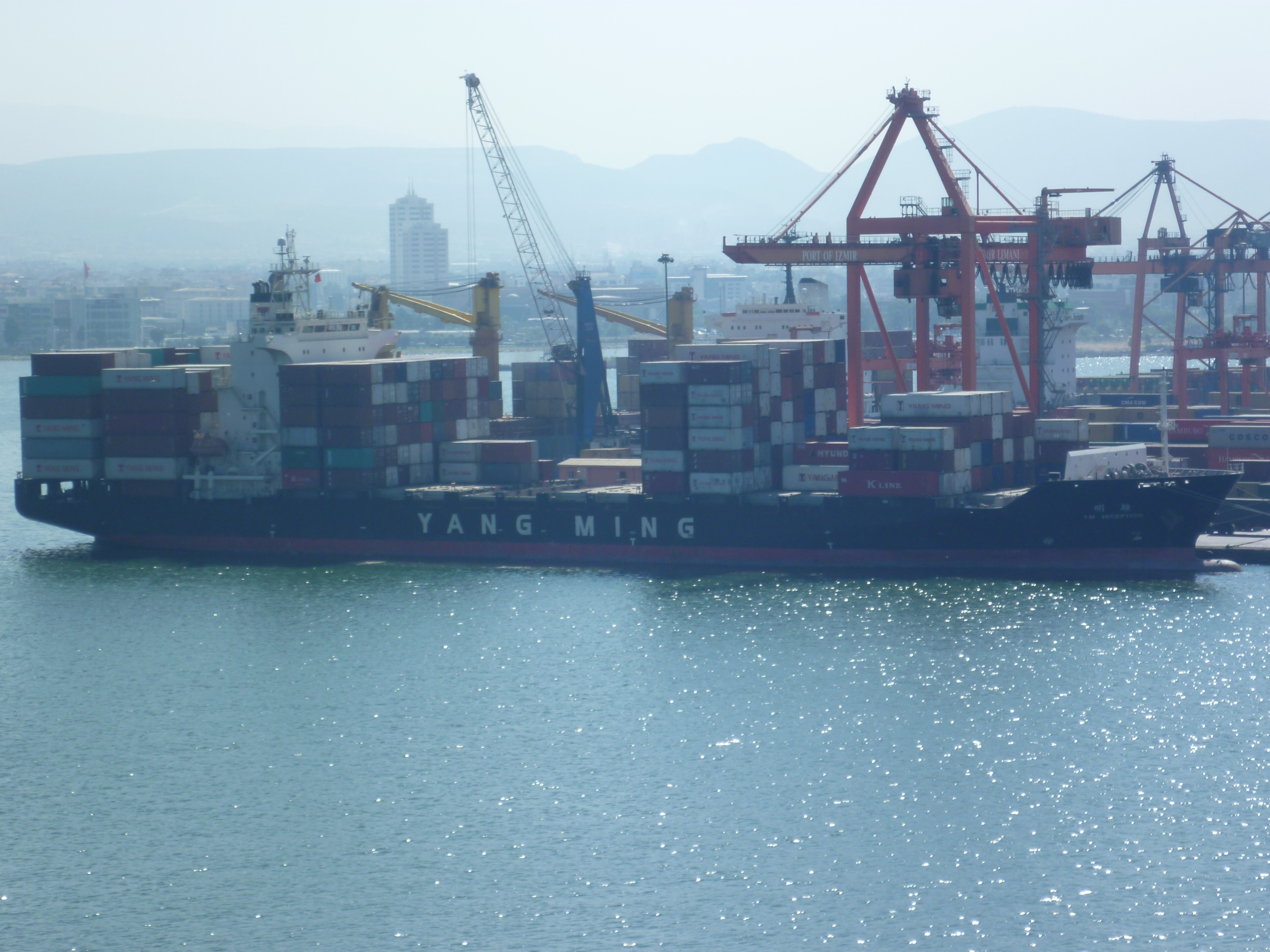 The container vessel YM Inception of Yang Ming Marine Transport Corp. (Taiwan) in Izmir, 8. july 2011